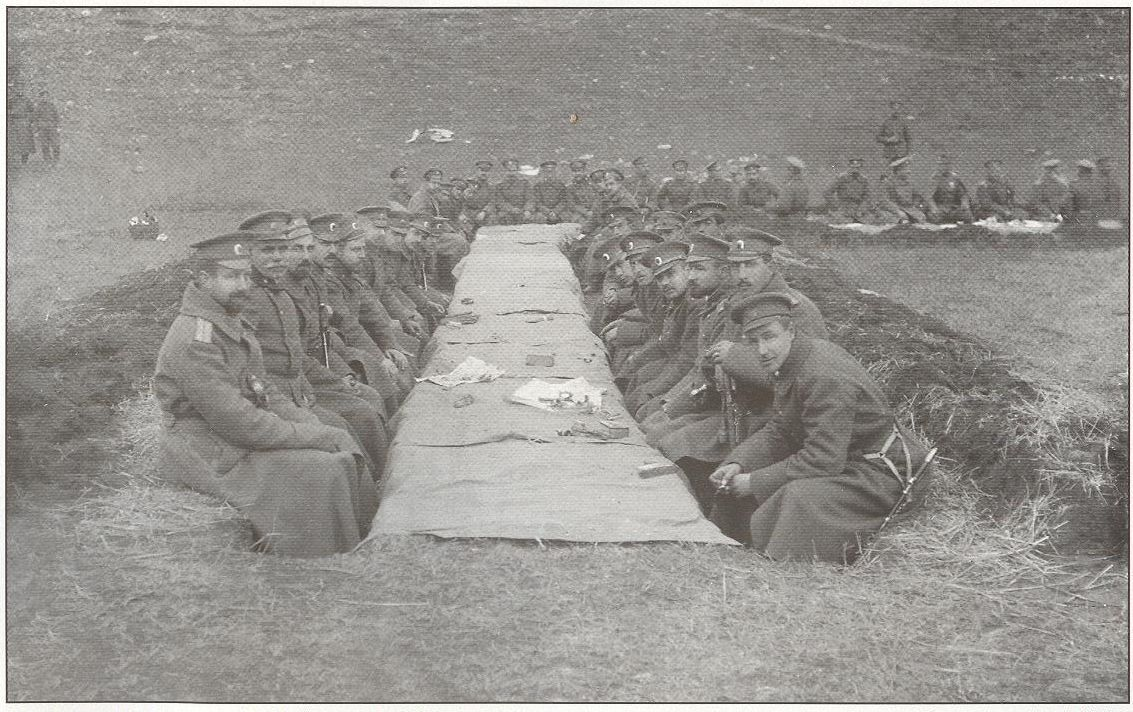 Christmas in the field - First Sofia Infantry Regiment, 1915